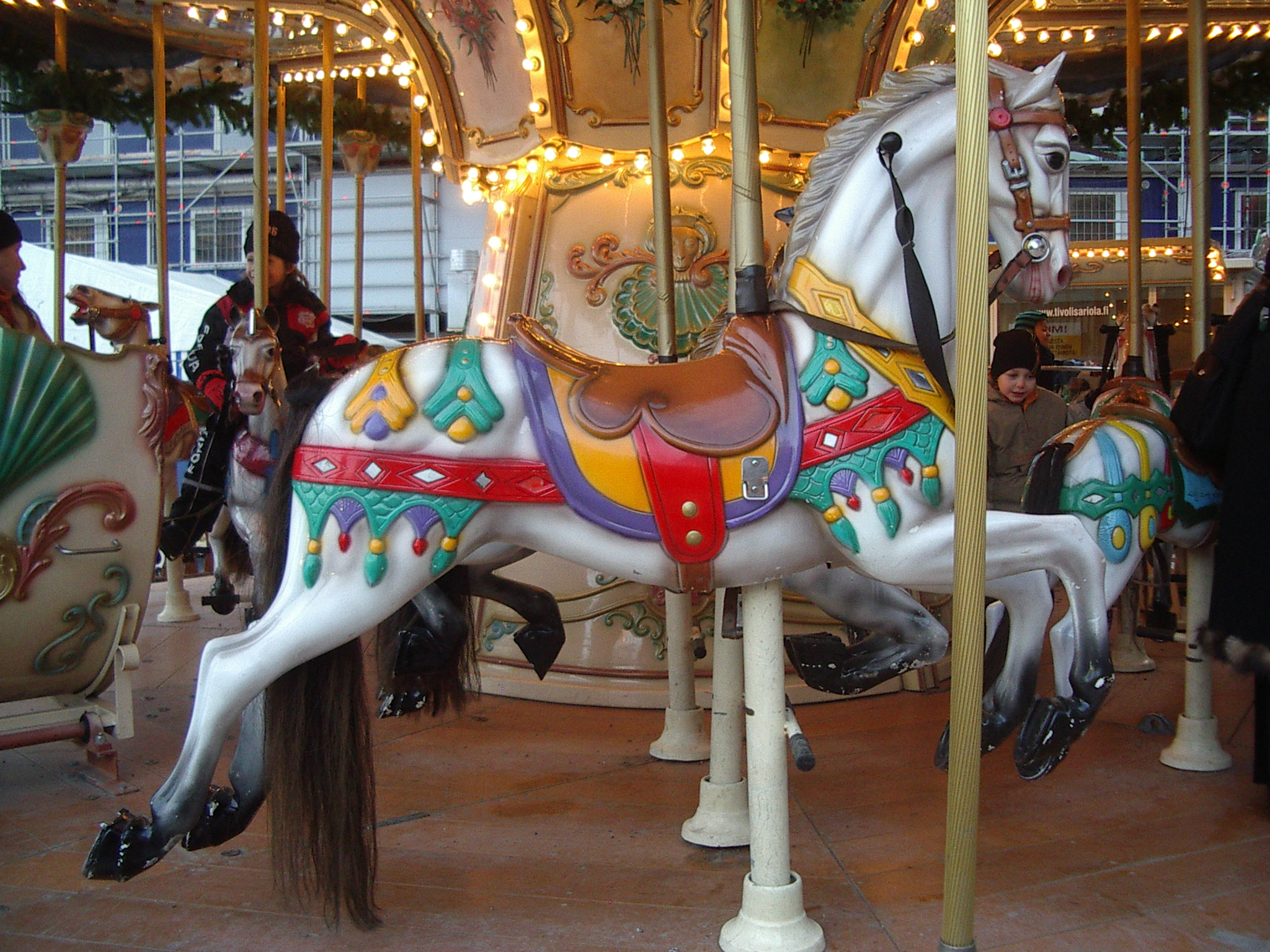 A carousel horse in front of Kampin keskus, Helsinki, Finland (Venetian Carousel)